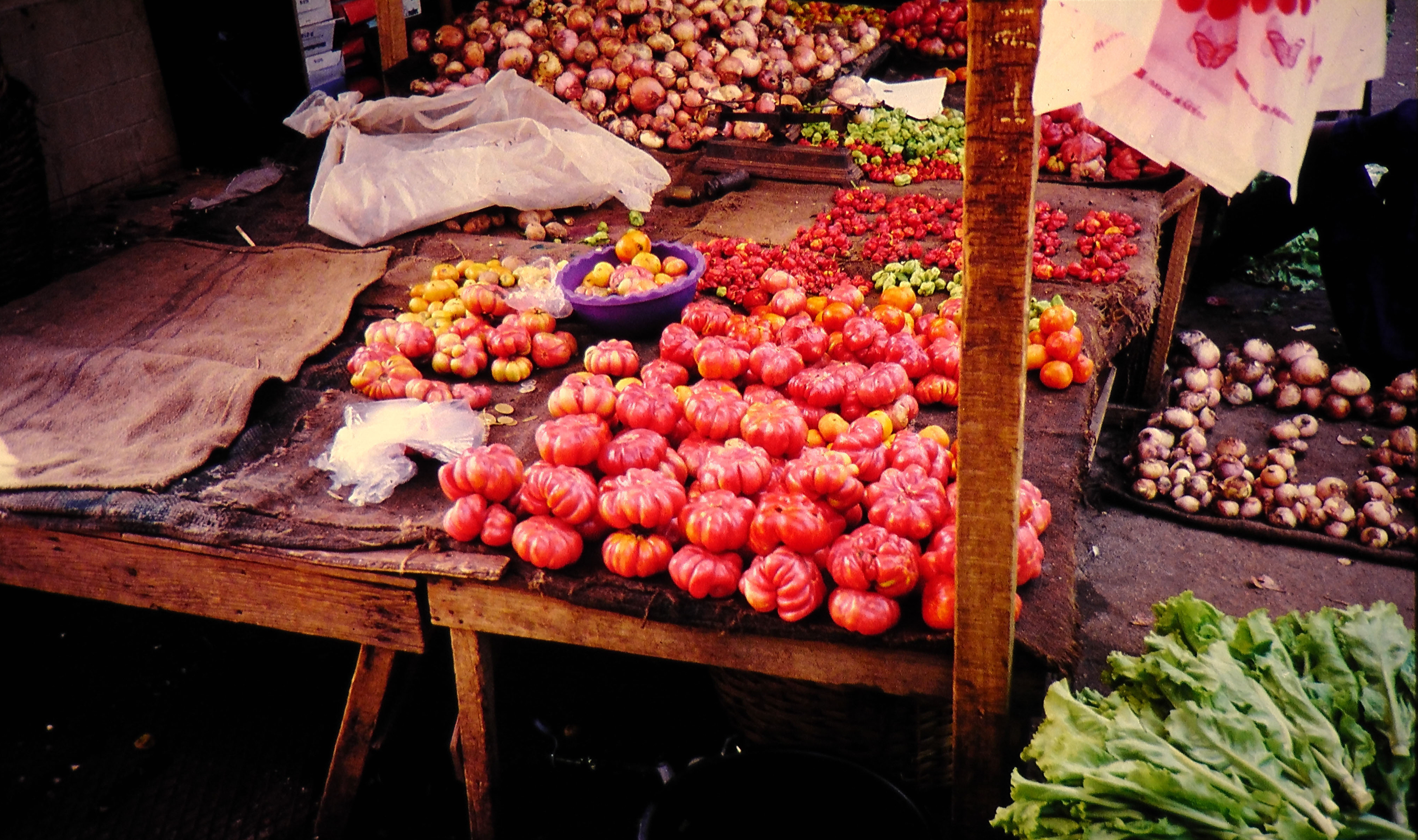 Tomatoes at Grand Marché, Niamey, Niger.